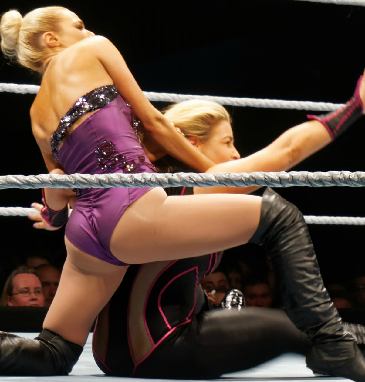 Lana applying a submission hold on Natalya during the WWE WrestleMania revenge tour in April 2016.